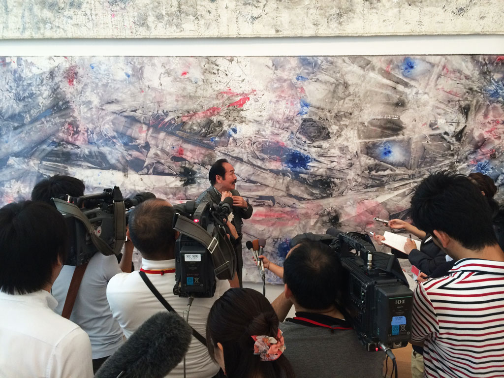 Japanese painter Morio Matsui at the Nagasaki Prefectural Art Museum